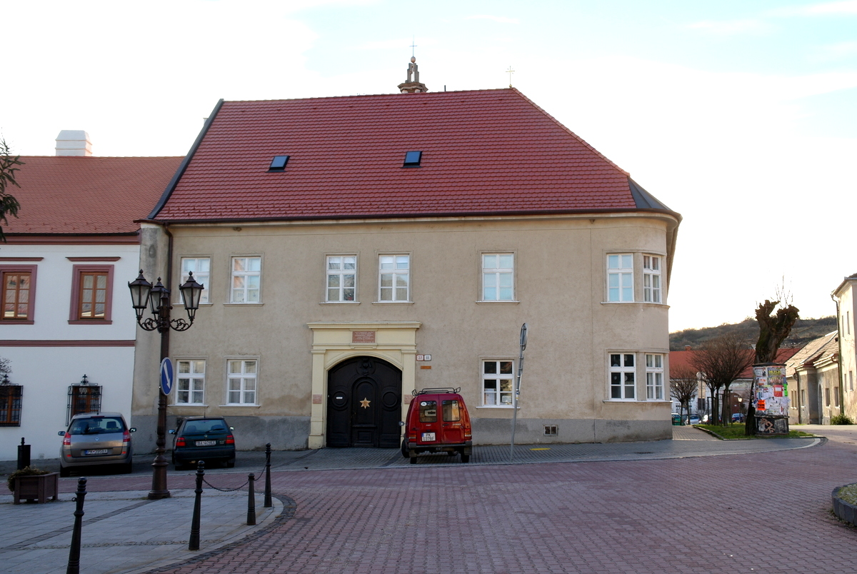 Evangelical Church A.C., Prostredná str. 37, Svätý Jur. Originally house of Segner family. Consecrated in 1783 on the basis of the Toleration Patent of Emperor Joseph II. There was a rectory, school and chapel. The bell tower built in. 1968